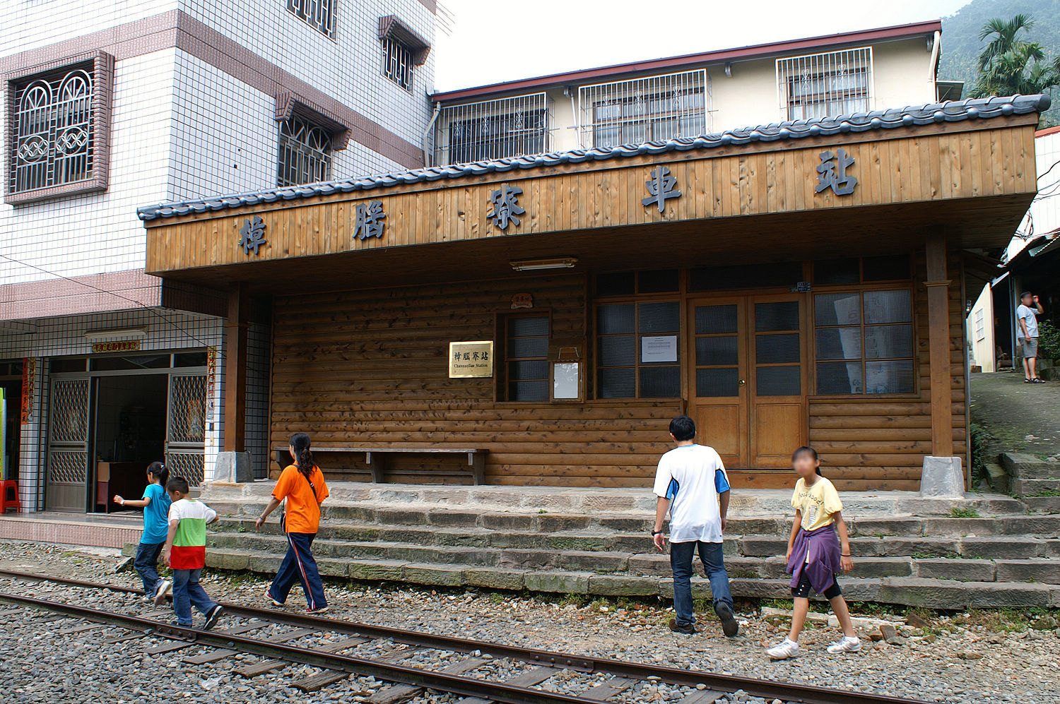 Zhang Nao Liao Station, Stations of Alishan Forest Railway, Chiayi, Taiwan. 阿里山森林鐵路樟腦寮車站